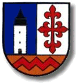 Coat of arms of Laufeld